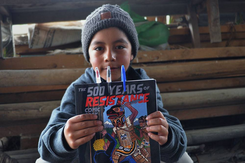 Saraguro kid holding a comic book about the chronicles of colonialism illustared and written by Gordon Hill.